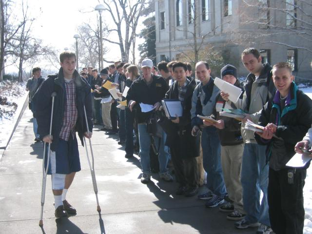 Public domain, taken by me. Key signing party participants lined up, ready to verify each others' identities.